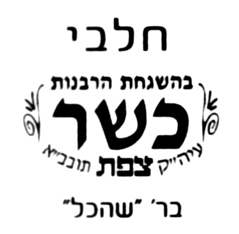 Kosher marks - Dairy. Casher under the Supervision of the Rabbinate of the holy city of Safed ("may it be rebuilt & reestablished speedily in our days, Amen") The blessing to be used is "שהכל" (She-Hakol) "For everything exists by G-d's word"